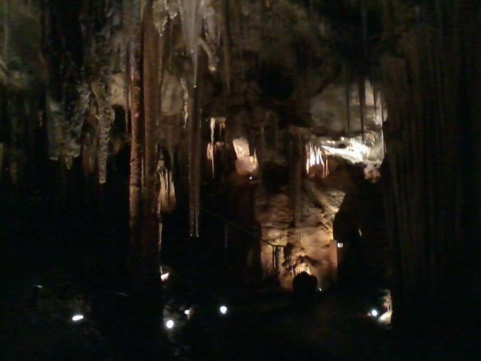 The inside of the Tantanoola Caves, South Australia, taken during a tour.